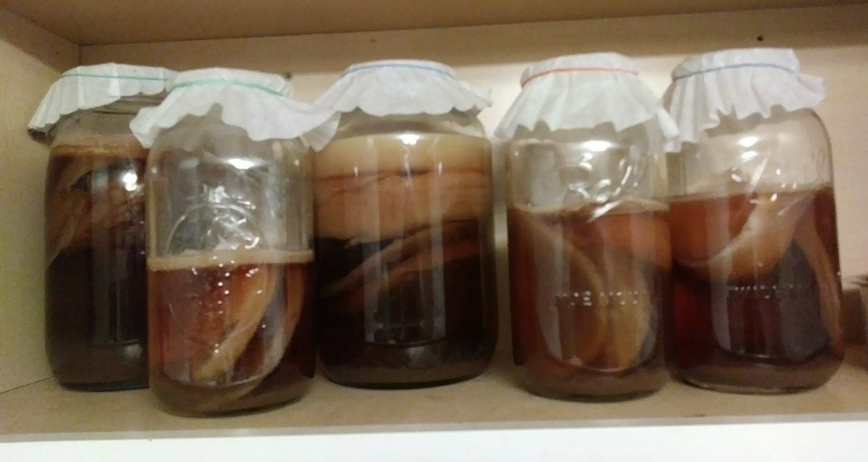 Kombucha scobies